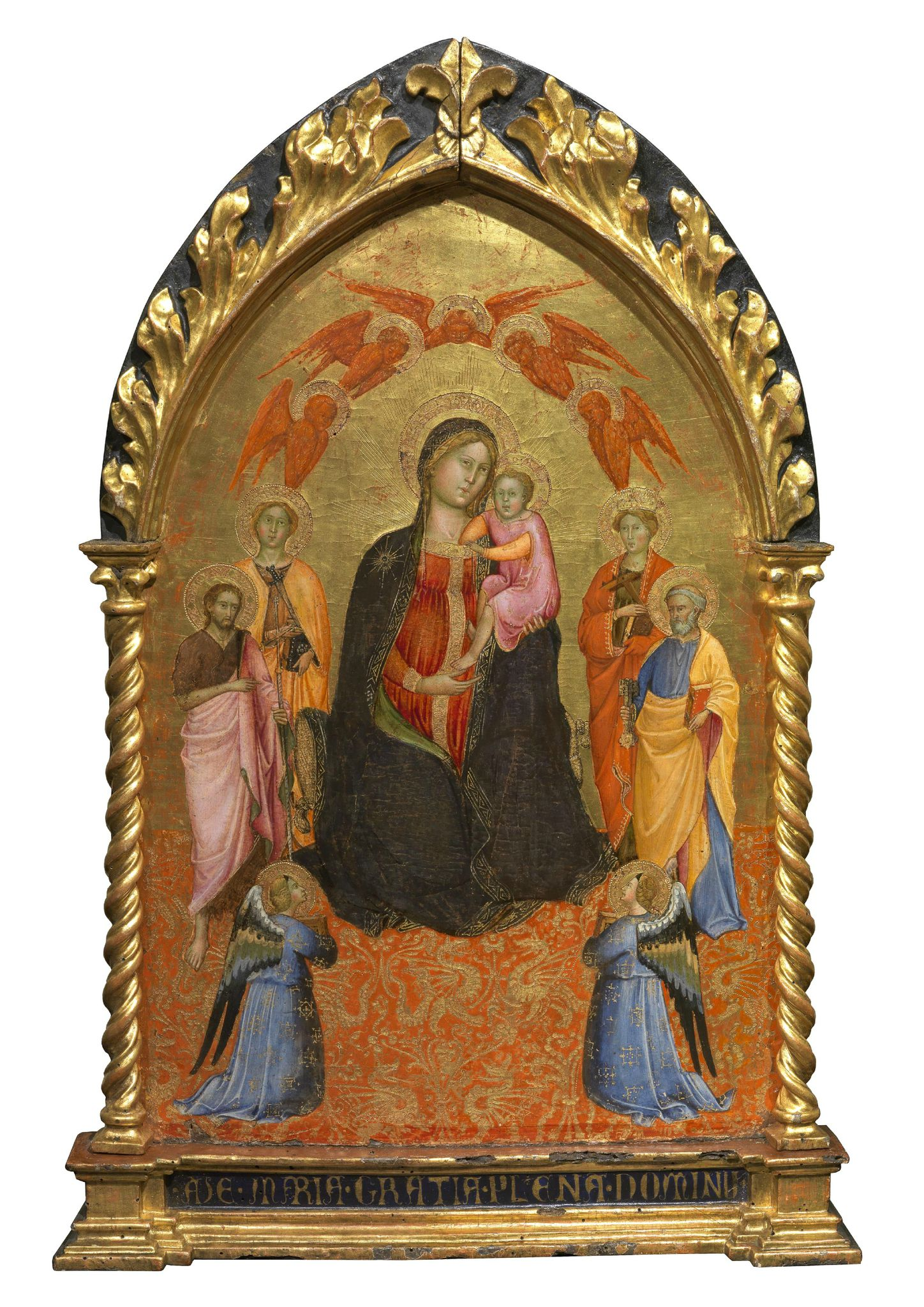 Cennino Cennini, Madonna and Child with Angels and Saints Tempera, 82 x 58 cm Galleria Moretti